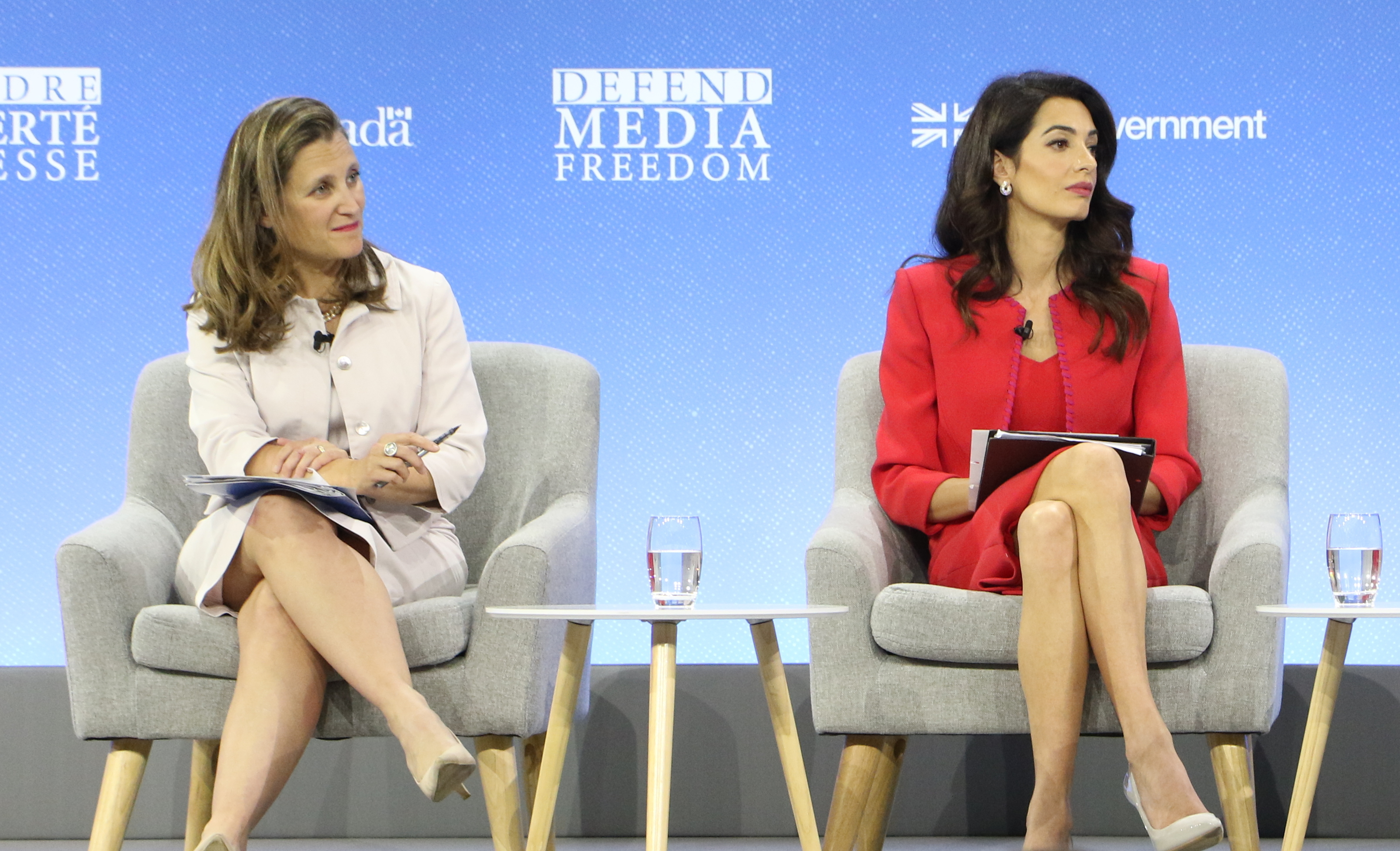 Chrystia Freeland and Amal Clooney at the Global Conference for Media Freedom in London.